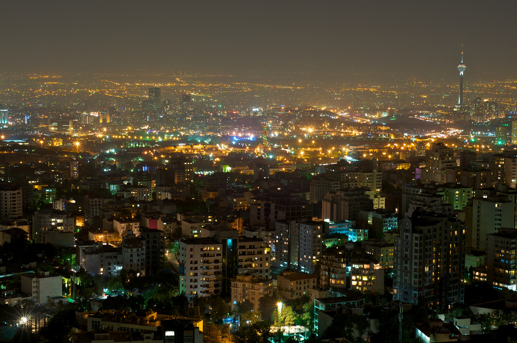 Tehran skyline on a hot summer night View On Black